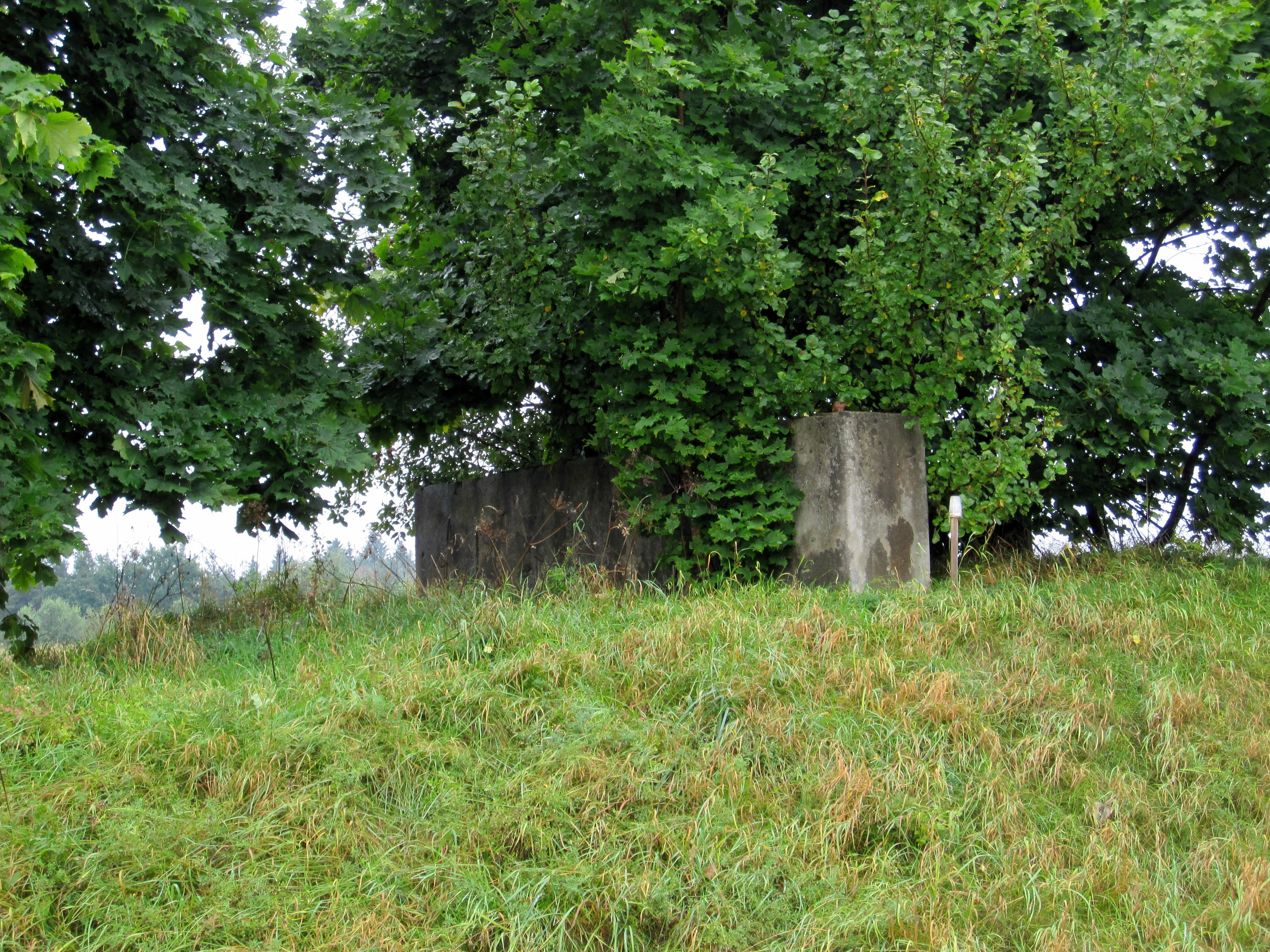 Korpele - remains of the monument